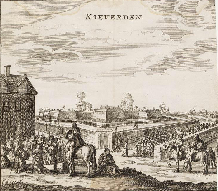 Coevorden taken by Maurice of Nassau in 1592